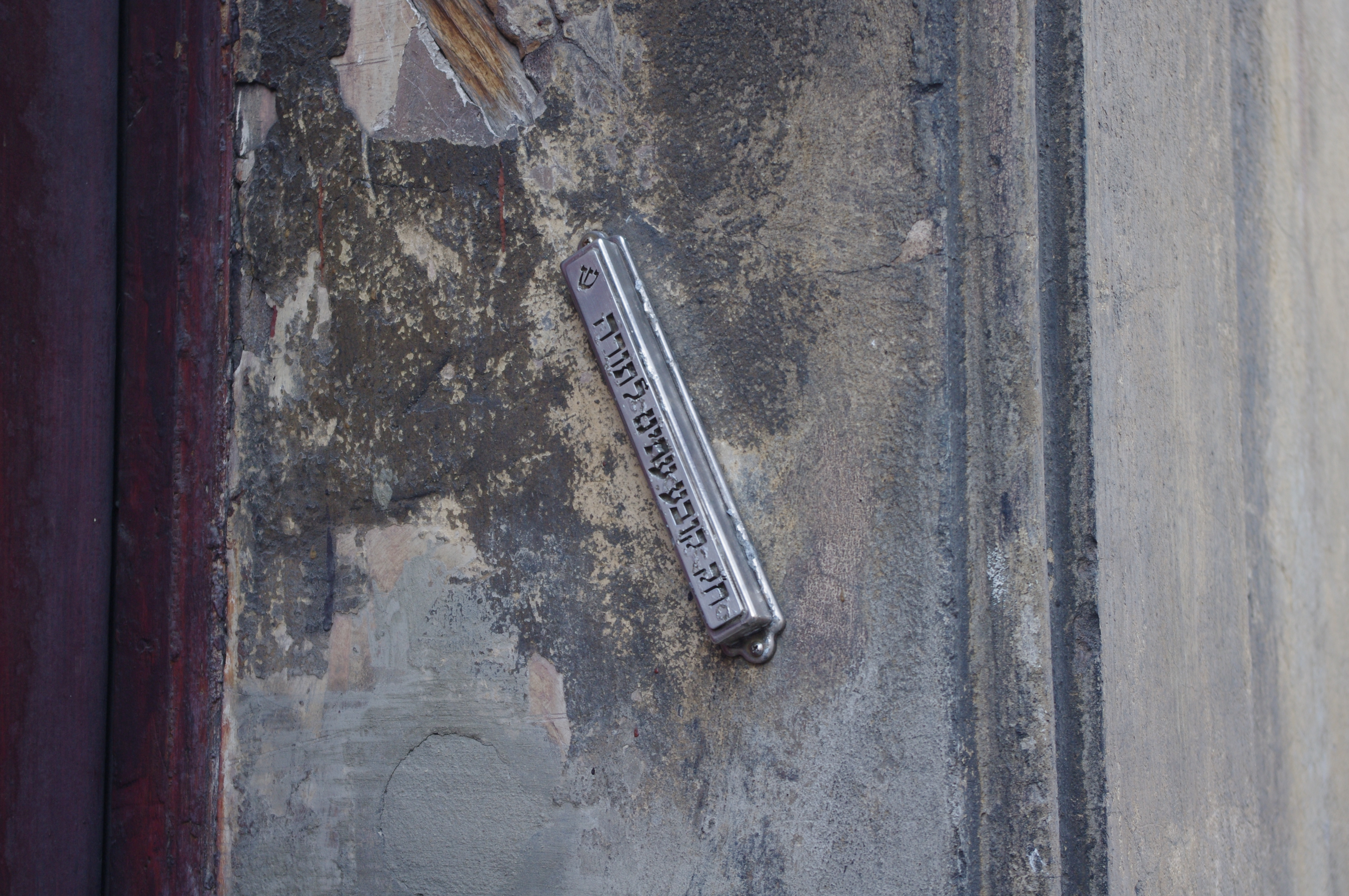 Mezuzah in Kraków, Jozefa street 42. Above there is a place after old mezuzah